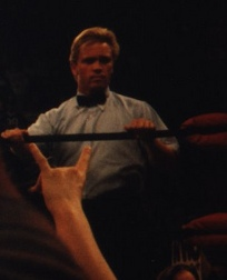 Referee Charles Robinson during a taping of WCW Monday Nitro from Minneapolis, Minnesota in 1998.